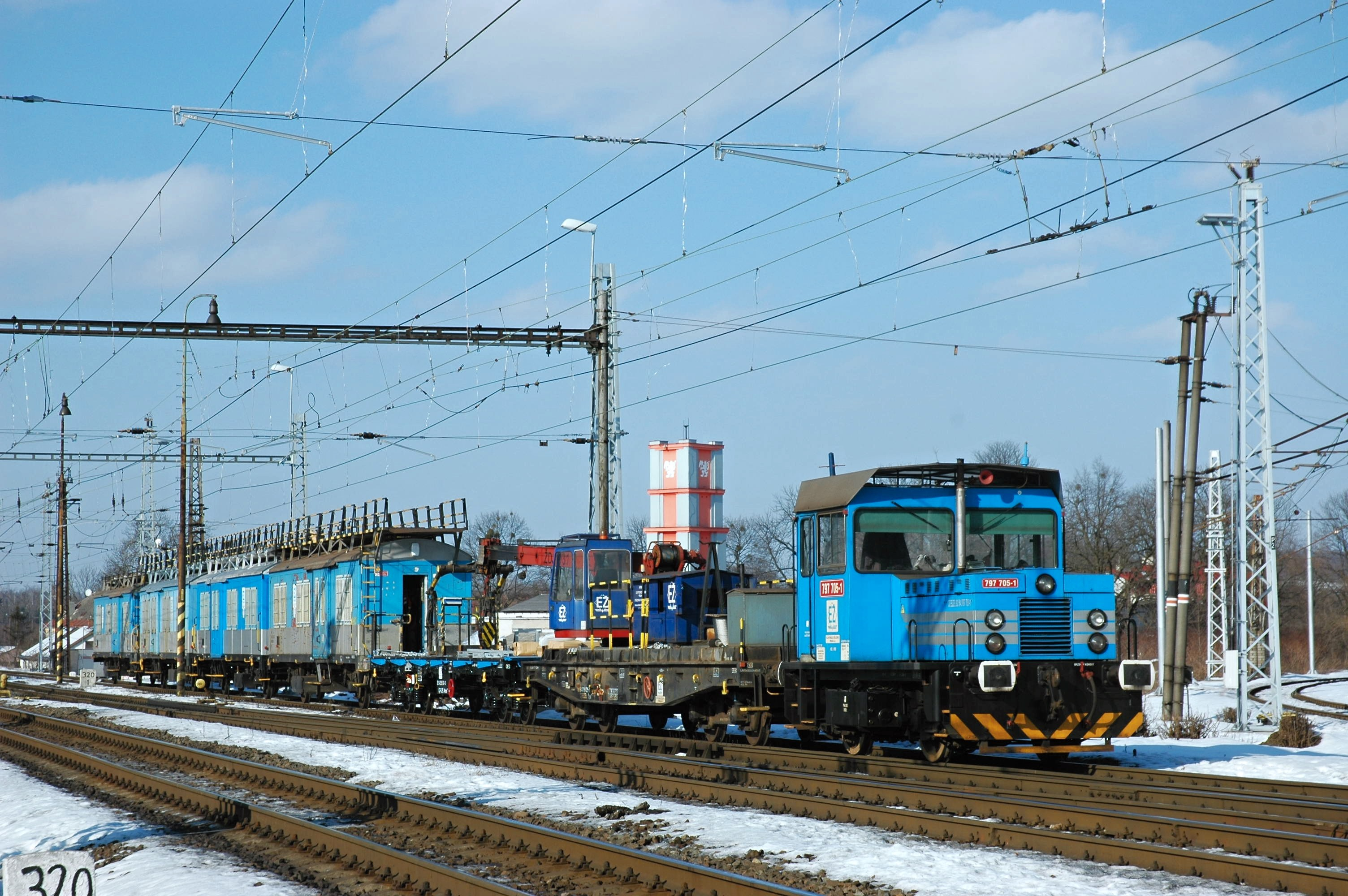 Locomotive 797.705 of Elektrizace železnic Praha during modernization works at Český Těšín railway station